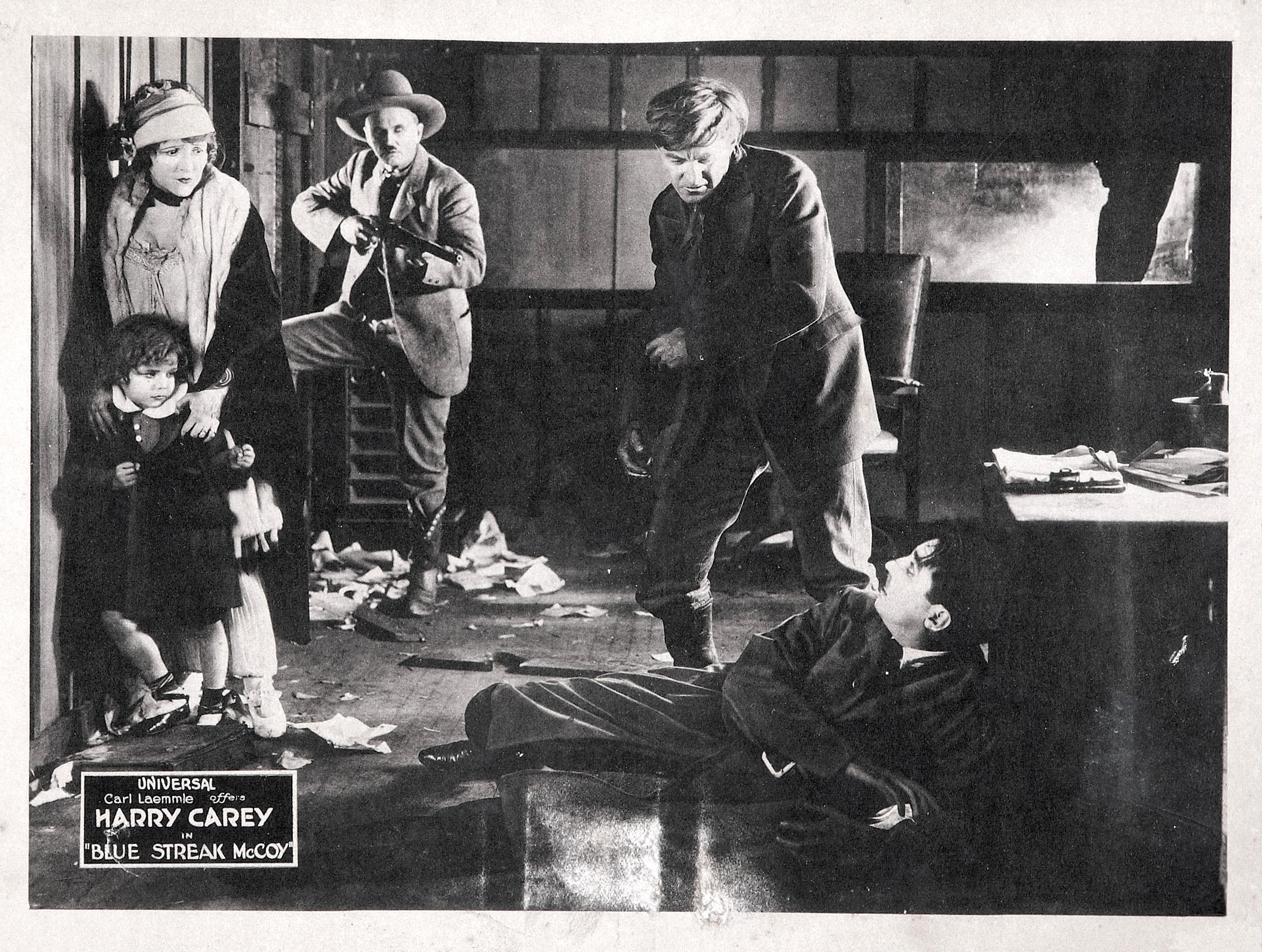 Blue Streak McCoy is a 1920 American Western film starring Harry Carey. This is a slightly restored lobby card for the film.